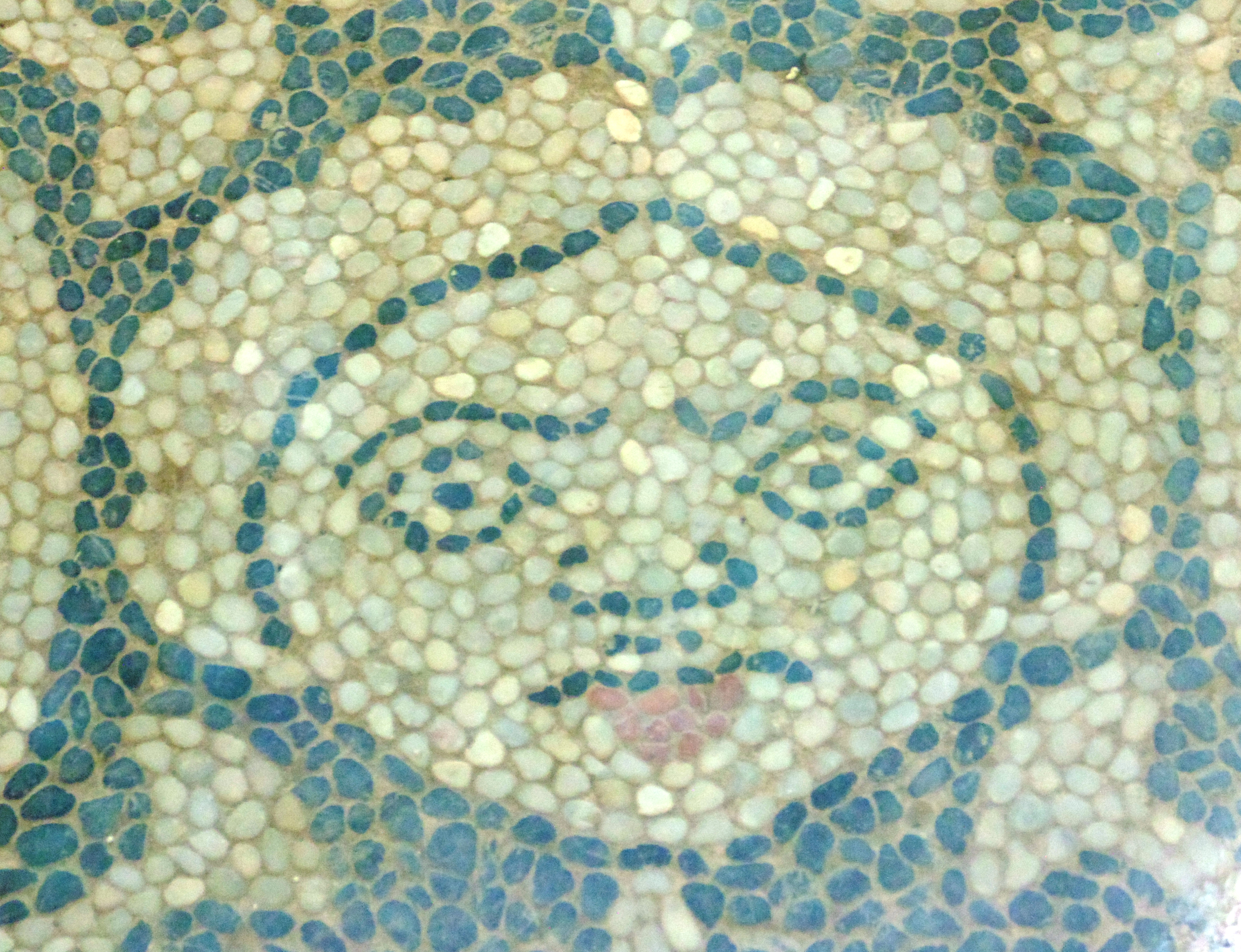 Mosaic